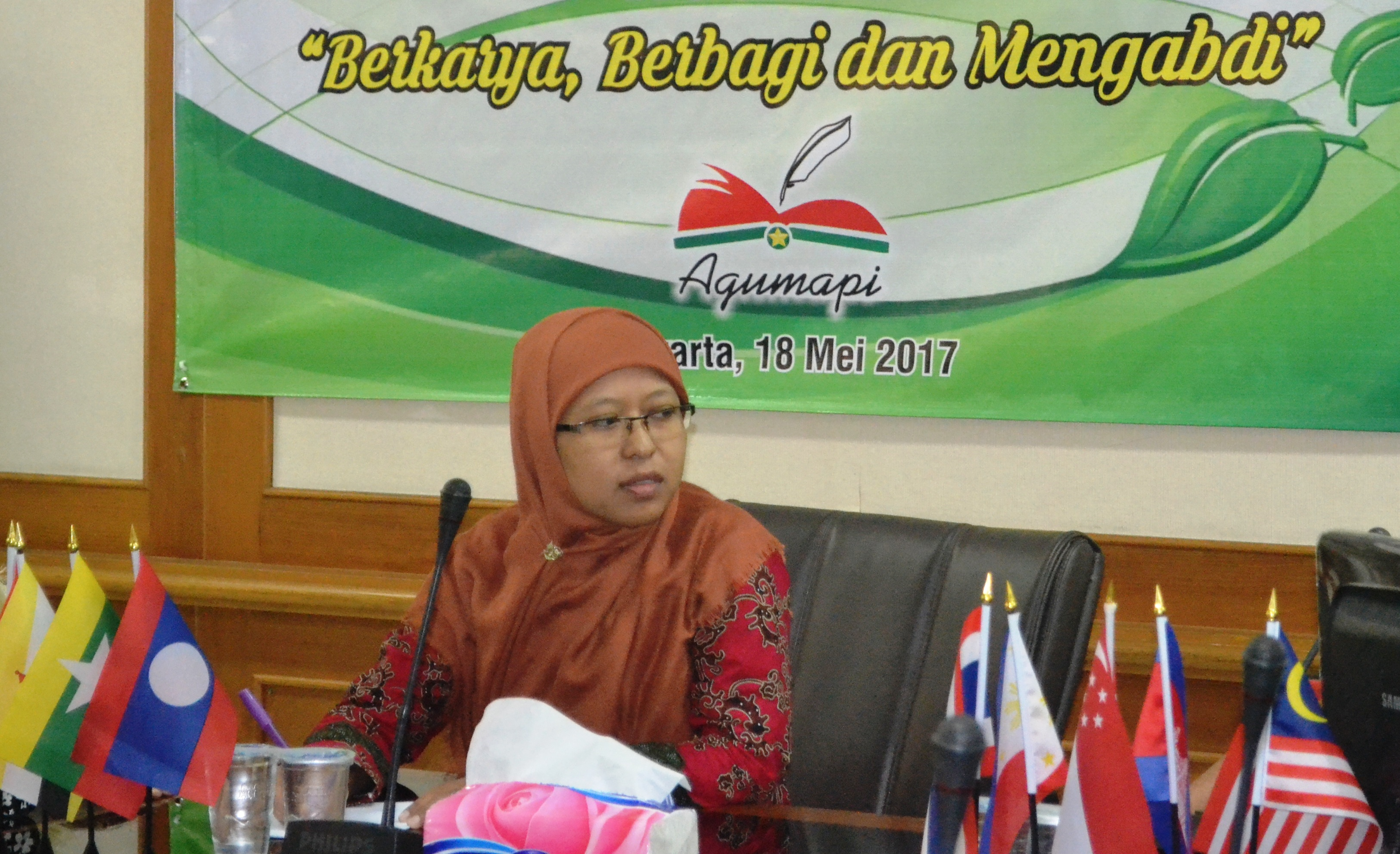 Siska Yuniati, The Head of Indonesian Writers of Islamic School's Teachers Association, at Syarif Hidayatullah State Islamic University Jakarta.